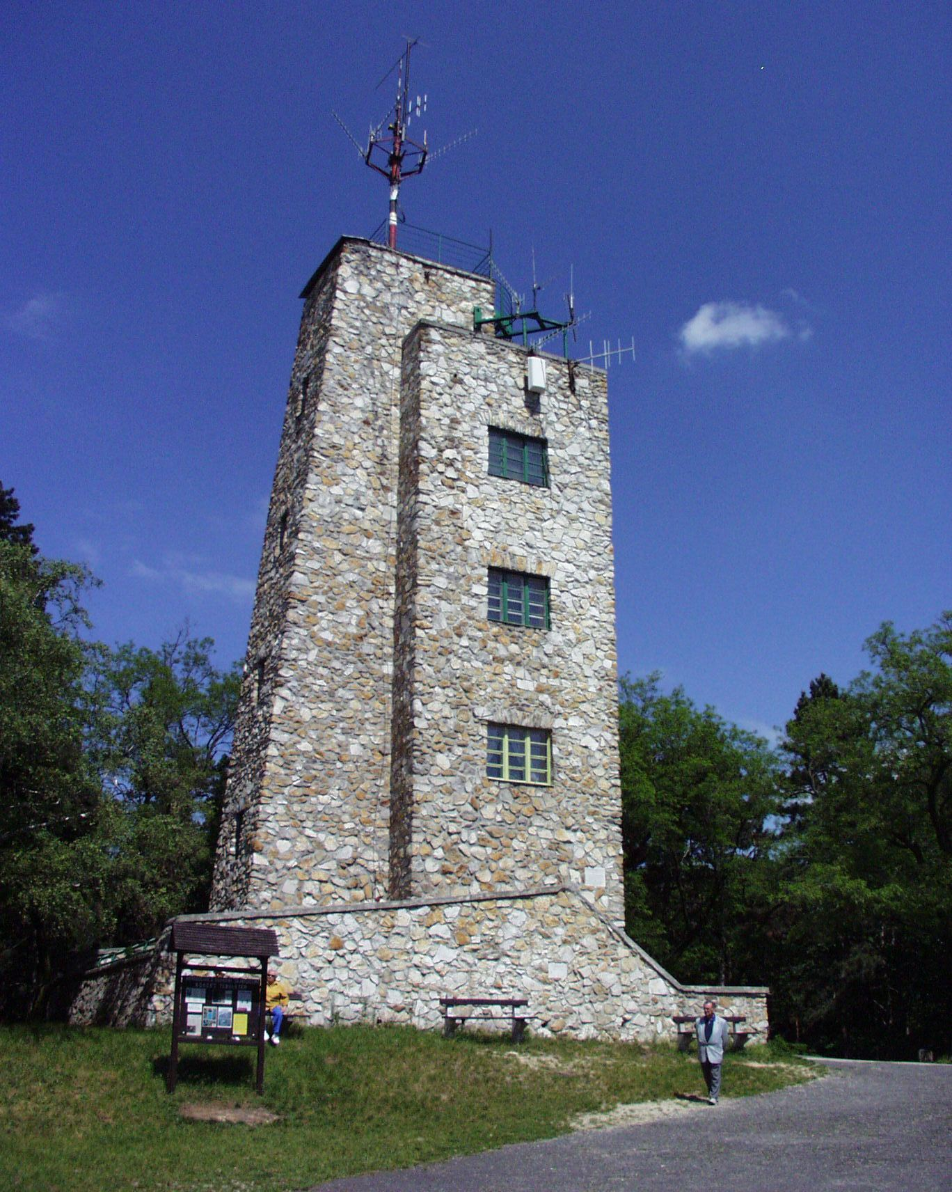 The Károly Lookout Tower (Sopron, Hungary), built in 1936, architect Oszkár Winkler.